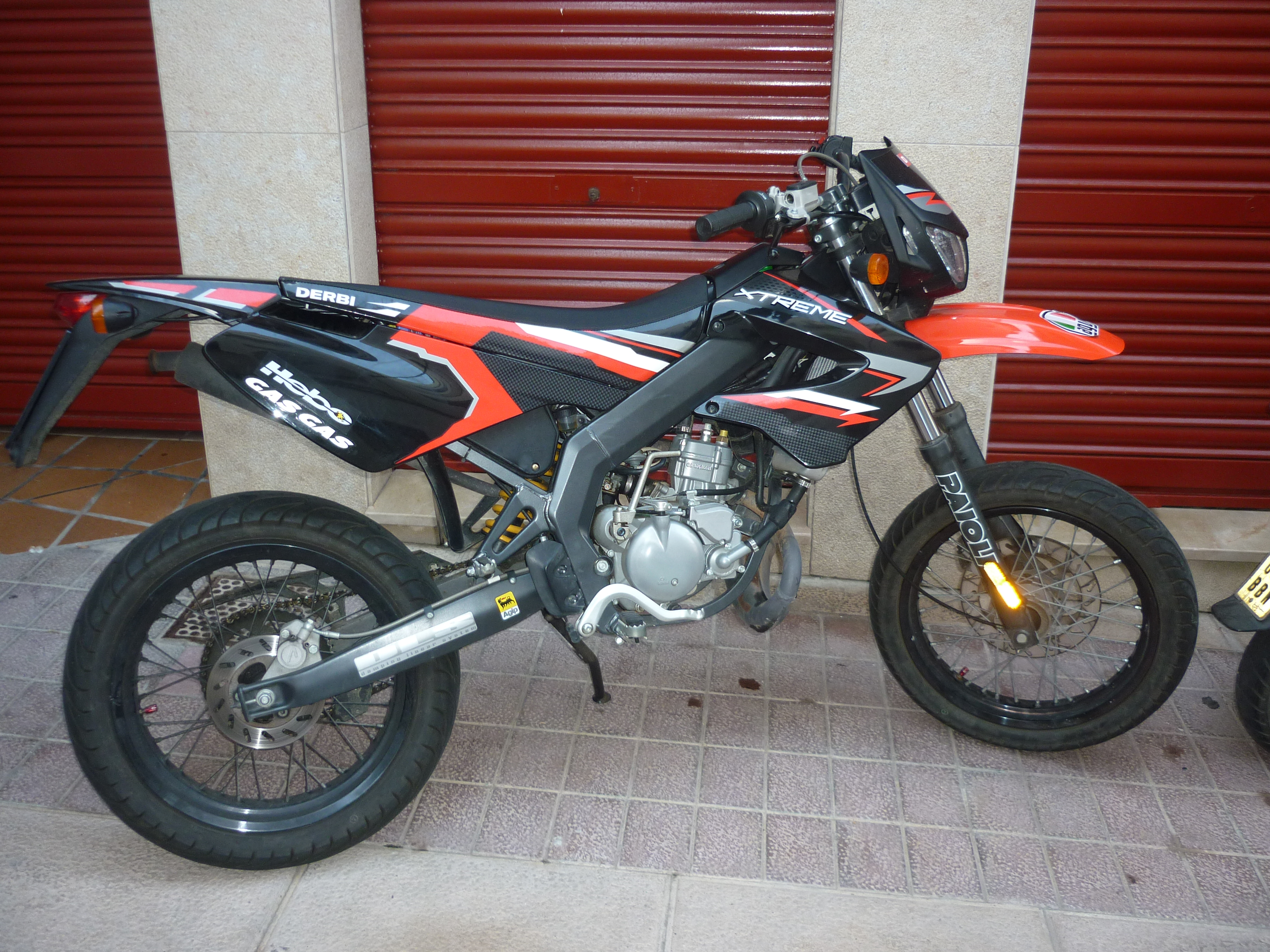 Derbi Senda Xtreme 50 SM 2010. Seen in Tossa de Mar (Catalonia)